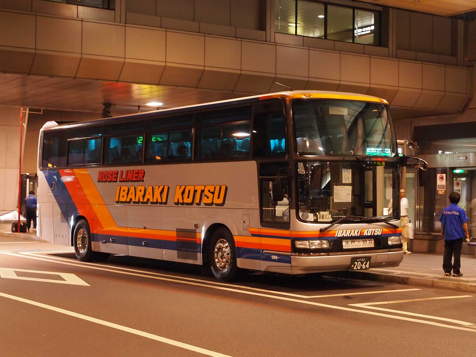 Fleet of Ibaraki Kotsu, for "Rose Liner" operated at between Narita International Airport and mid-northern Ibaraki Prefecture. Model: Hino Selega GJ KC-RU4FSCB License plate: IBM22 A2064